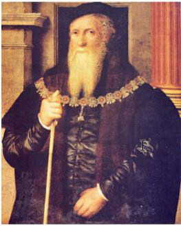 Artist: Guillim [William] Scrots (Flemish; Royal court painter in England from 1545); Title: Portrait of Sir Anthony Wingfield; Medium: Oil on canvas; Size: 89 x 72.5 cm. (35 x 28.5 in.) Portrait sold at Sotheby’s, London, 10 July 1991, Lot 7A, est. £35,000-£50,000; Provenance: Revd John Long of Saxmundham & Coddenham, T. Humphrey Ward (sold 1912), L.D. Cunliffe of Trelissick, Cornwall.